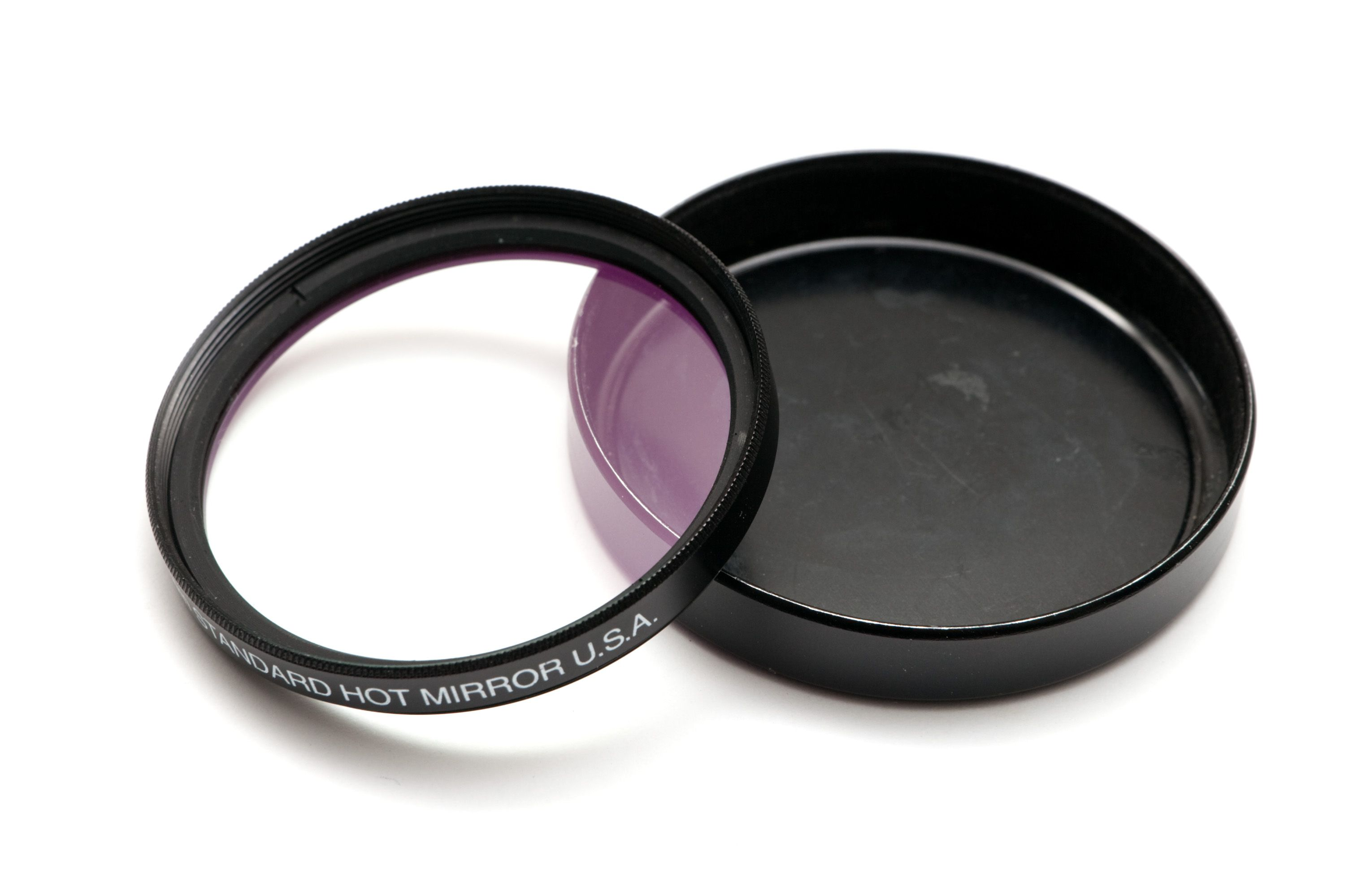 A Tiffen infrared-blocking Hot Mirror filter